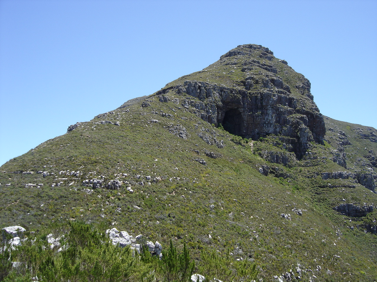 Elephants Eye Cave, Constantiaberg, Cape Town, South Africa